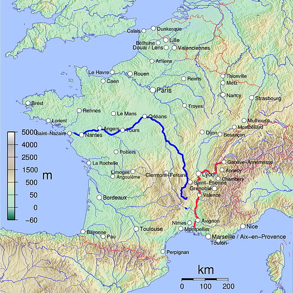 Derivative of File:France map with Loire highlighted.jpg with the Rhone river highlighted. Tried to upload this with Derivative FX but that is apparently down.